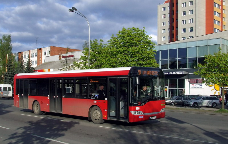 Solaris Urbino 12 Mk2 bus (#620, reg. ANA 113) in Kaunas, Lithuania. Built 2004, KA Kaunas operator.